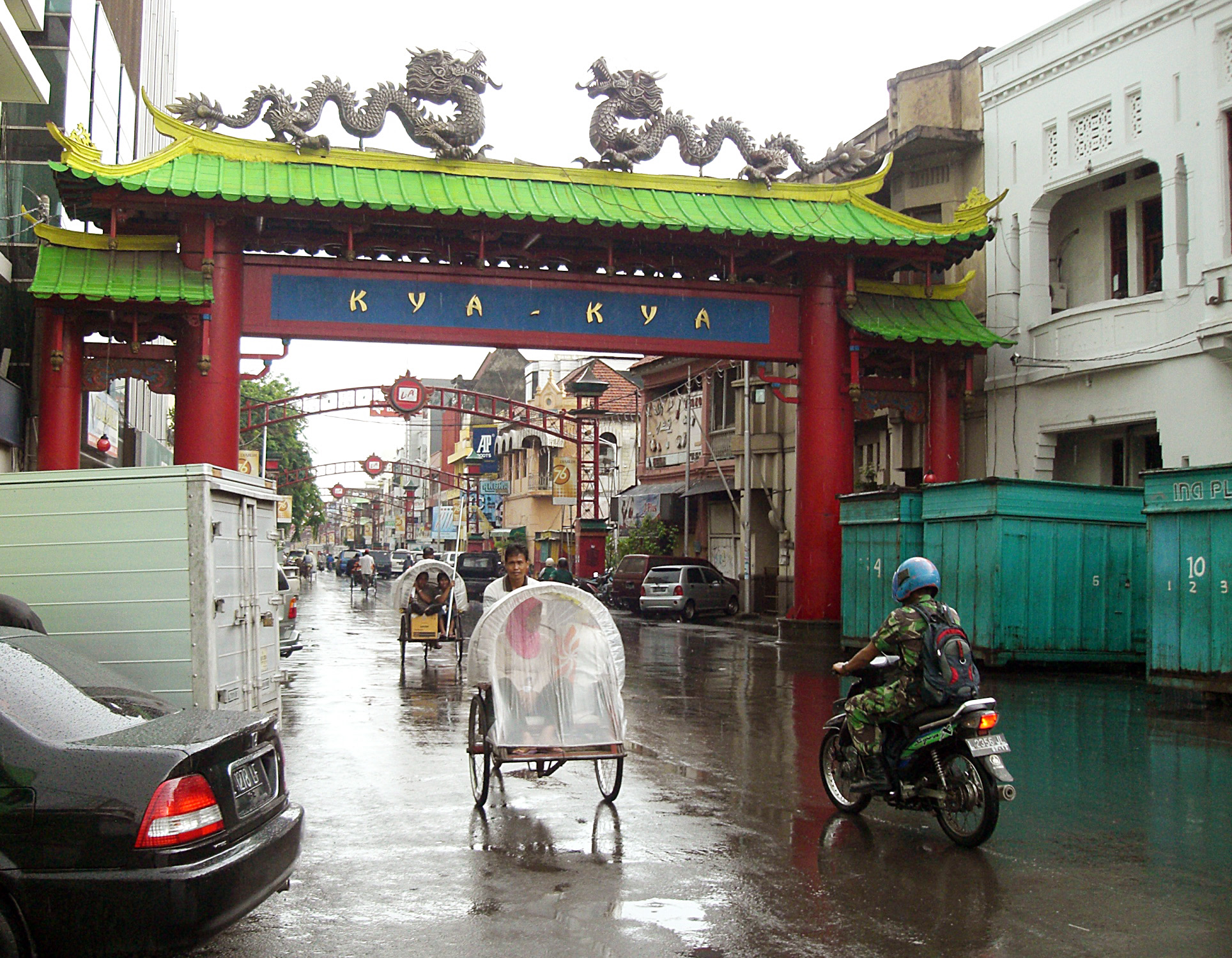 The gate of Surabaya Chinatown, Kya-Kya Kembang Jepun. Surabaya, East Java, Indonesia.